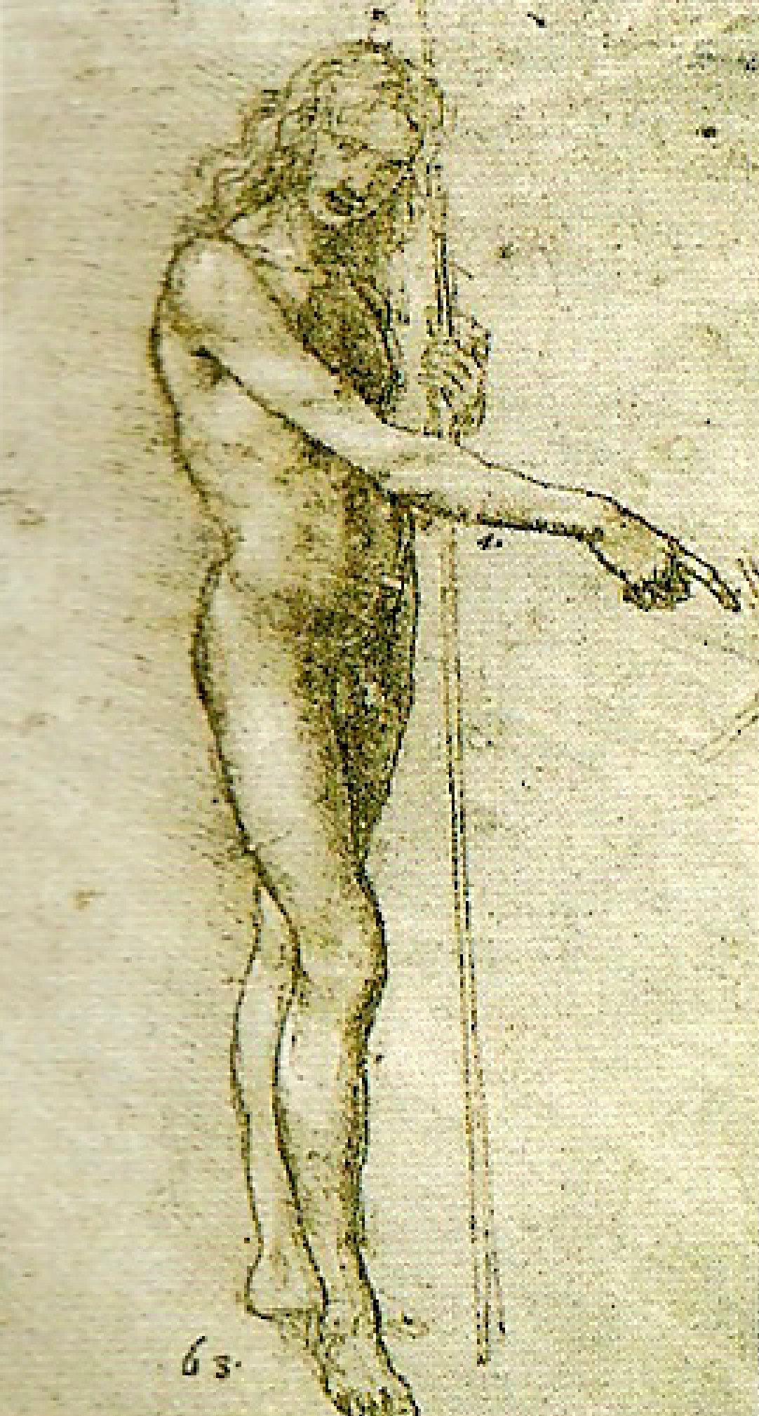 John the Baptist in the young age